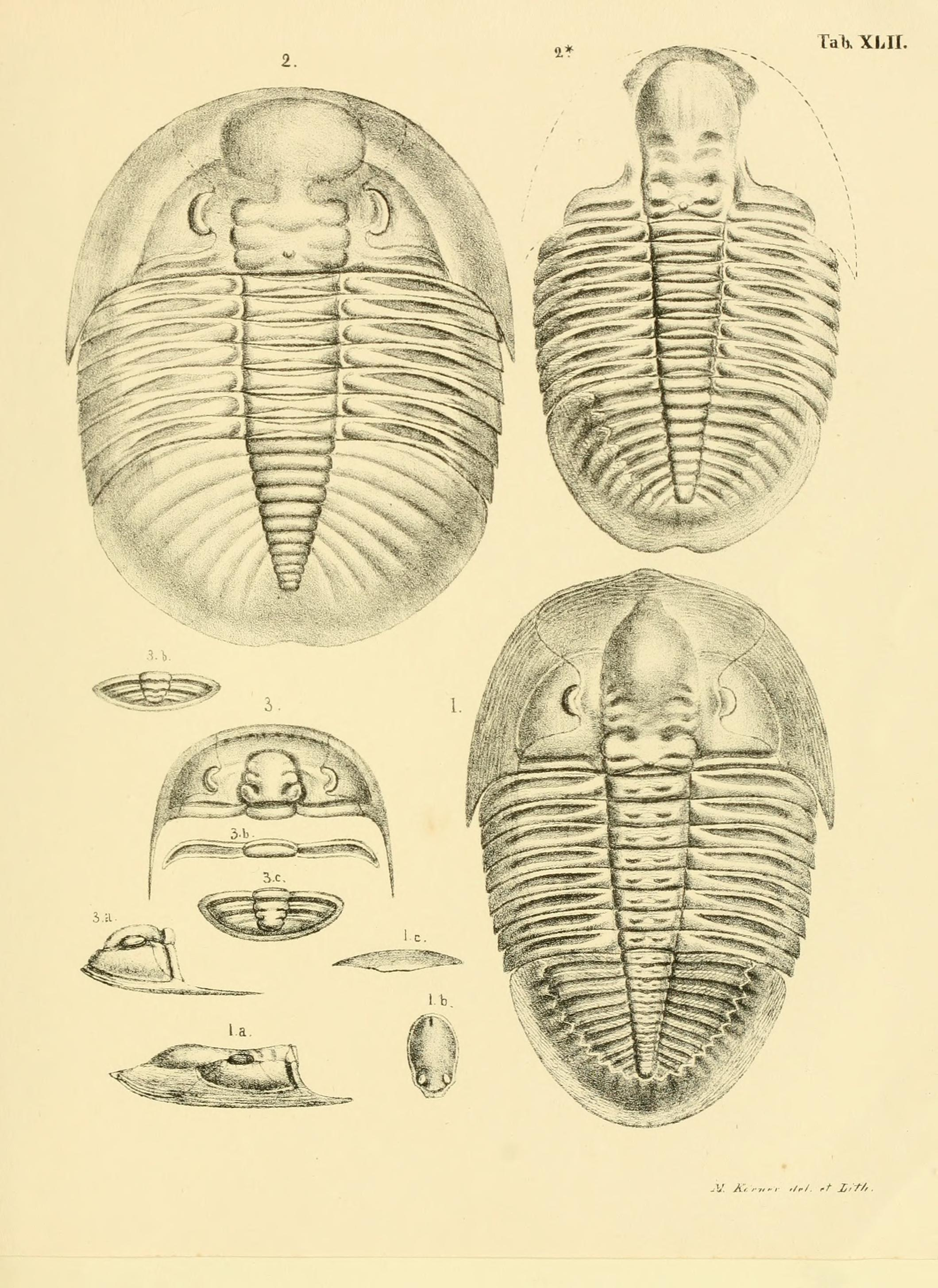 Paleontologia Scandinavica : Pt. 1. Crustacea formationis transitionis / auctore N. P. Angelin.